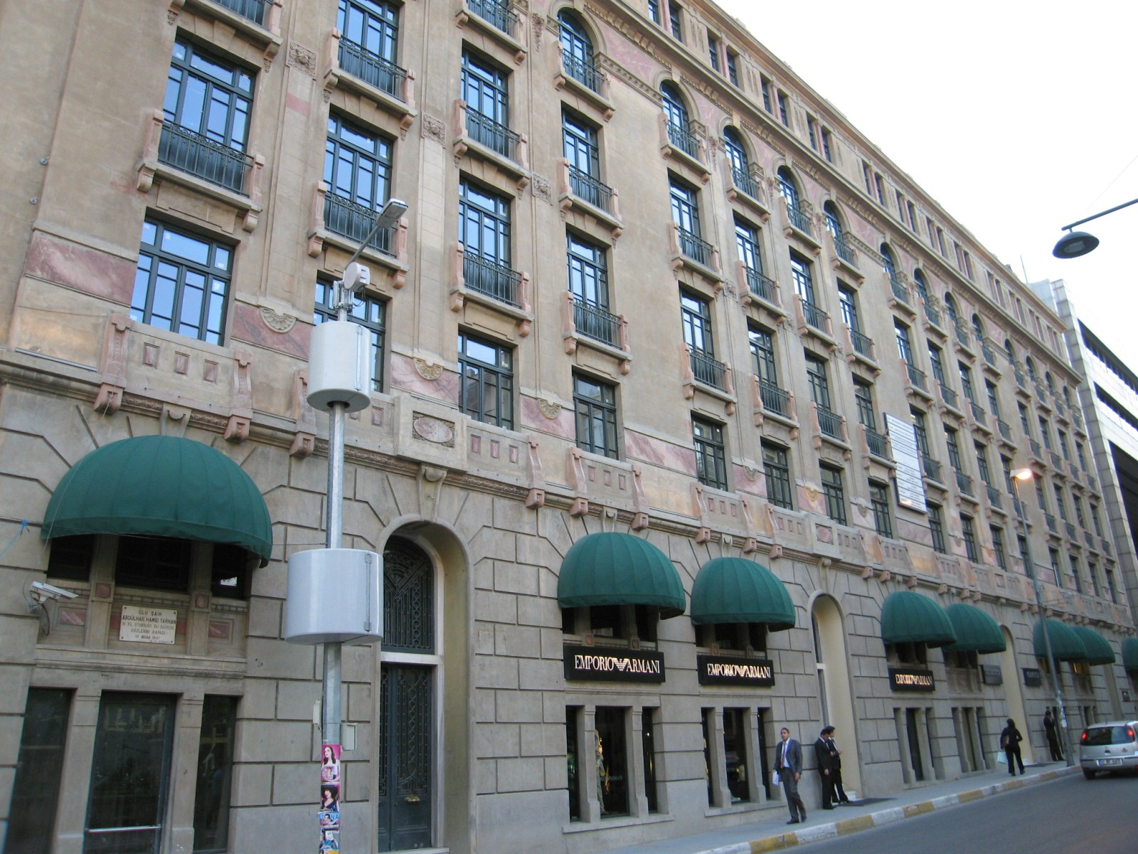 Maçka Palas building in Teşvikiye neighbourhood of Şişli district in Istanbul, Turkey